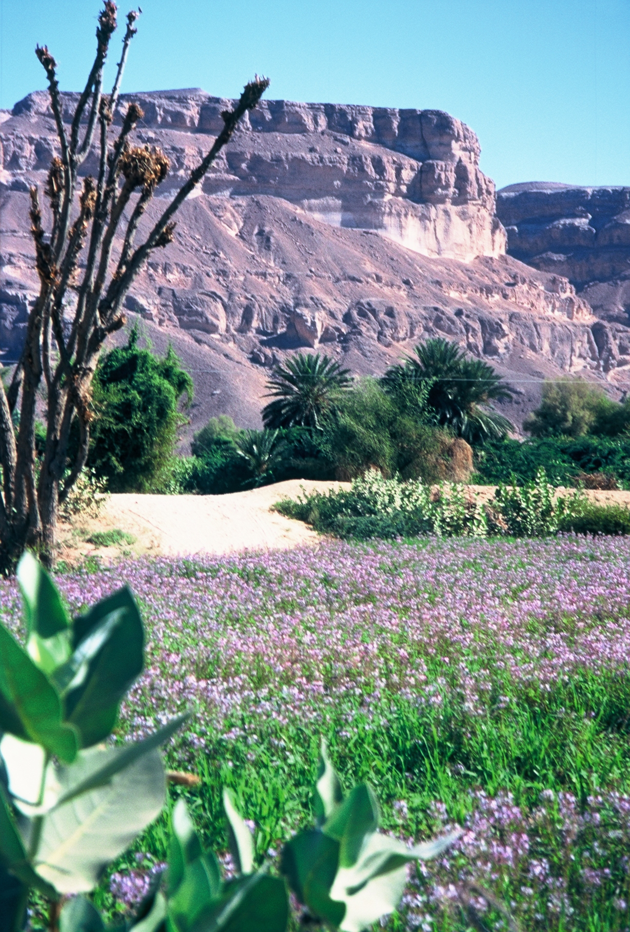 Region close to Sayun in the Hadhramaut Valley.